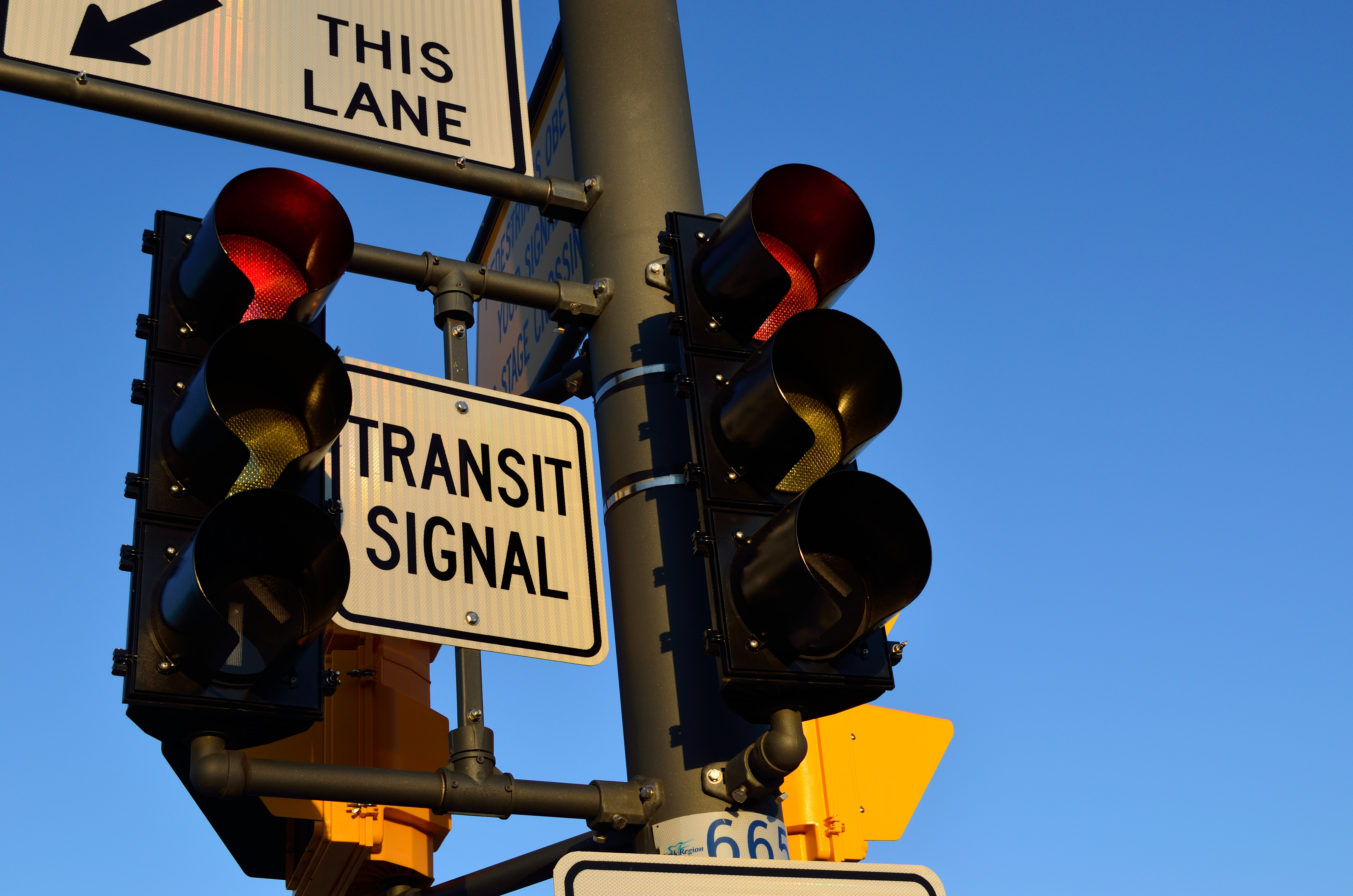 Traffic light for Viva bus lane.